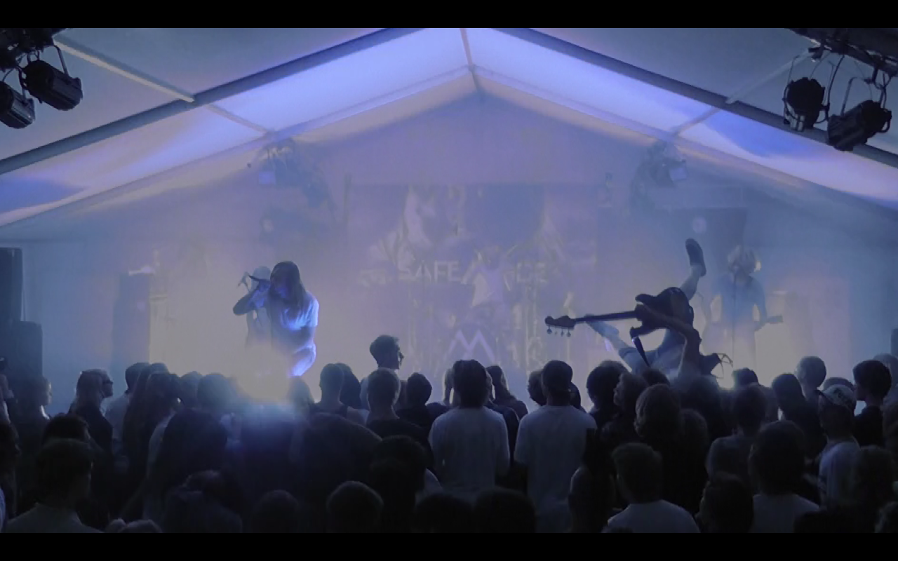 Safemode performing at Frizon 2010